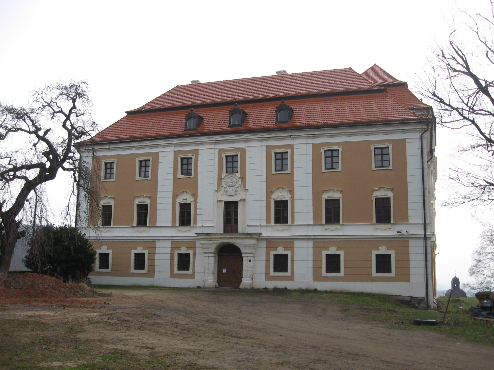 Chateau Valeč, (Karlovy Vary District, Czech Republic)